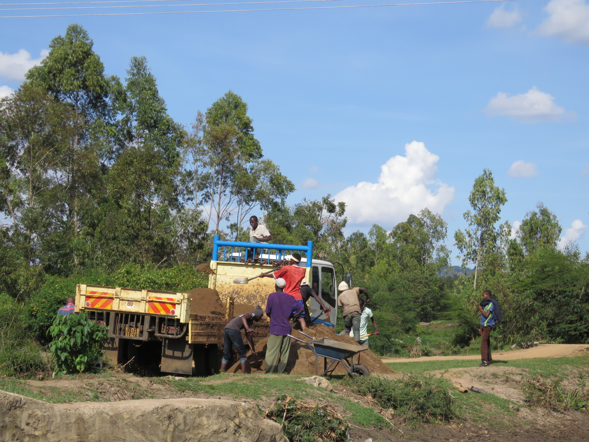 The picture describes how people within this area harvest sand from river beds for sale as a way of making ends meet for themselves and their families. This is an image of "African people at work" from Kenya